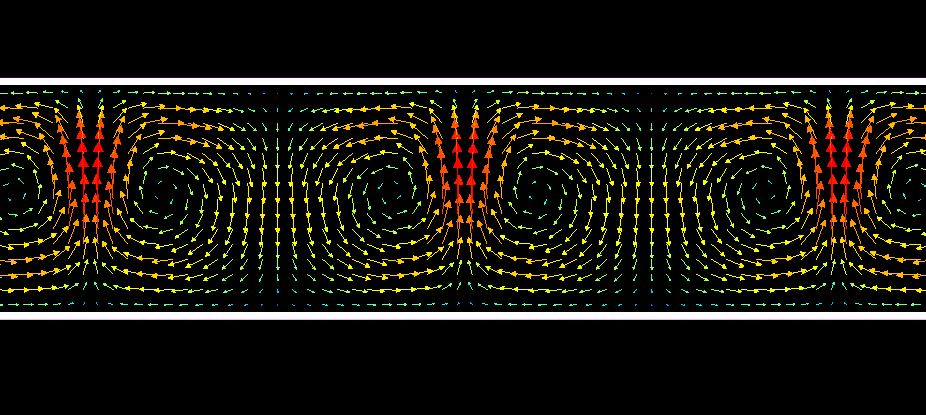 Benard cells inside a flat enclosure containing air. Result of a numerical simulation using the CFD software Flotherm. The enclosure dimensions were set to 100 x 100 x 15 mm3, the temperature difference between the upper and the lower wall was set to 1 °C. The maximum air speed is approximately 0.3 mm/s.